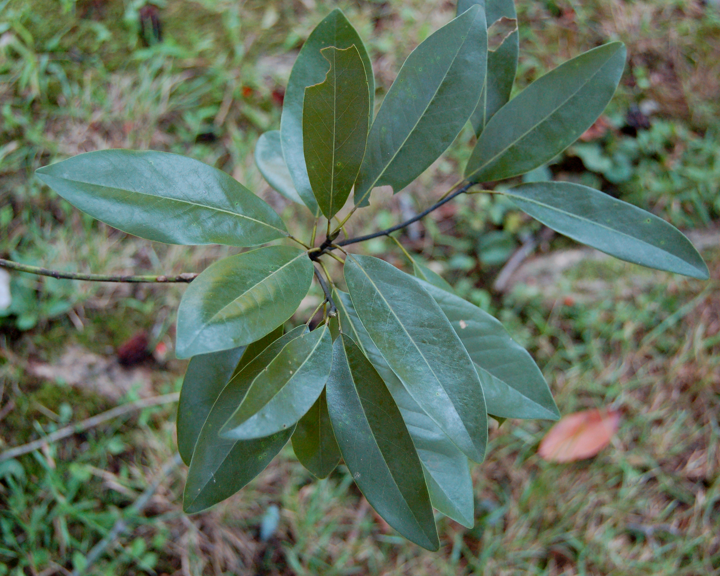 Photograph of the Sweetbay Magnoliaen (Magnolia virginiana en ). Photo taken at the Tyler Arboretum where it was identified.